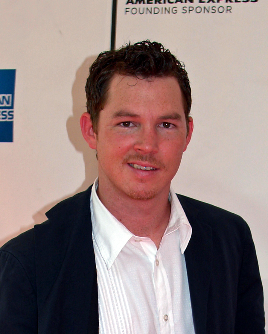 Shawn Hatosy